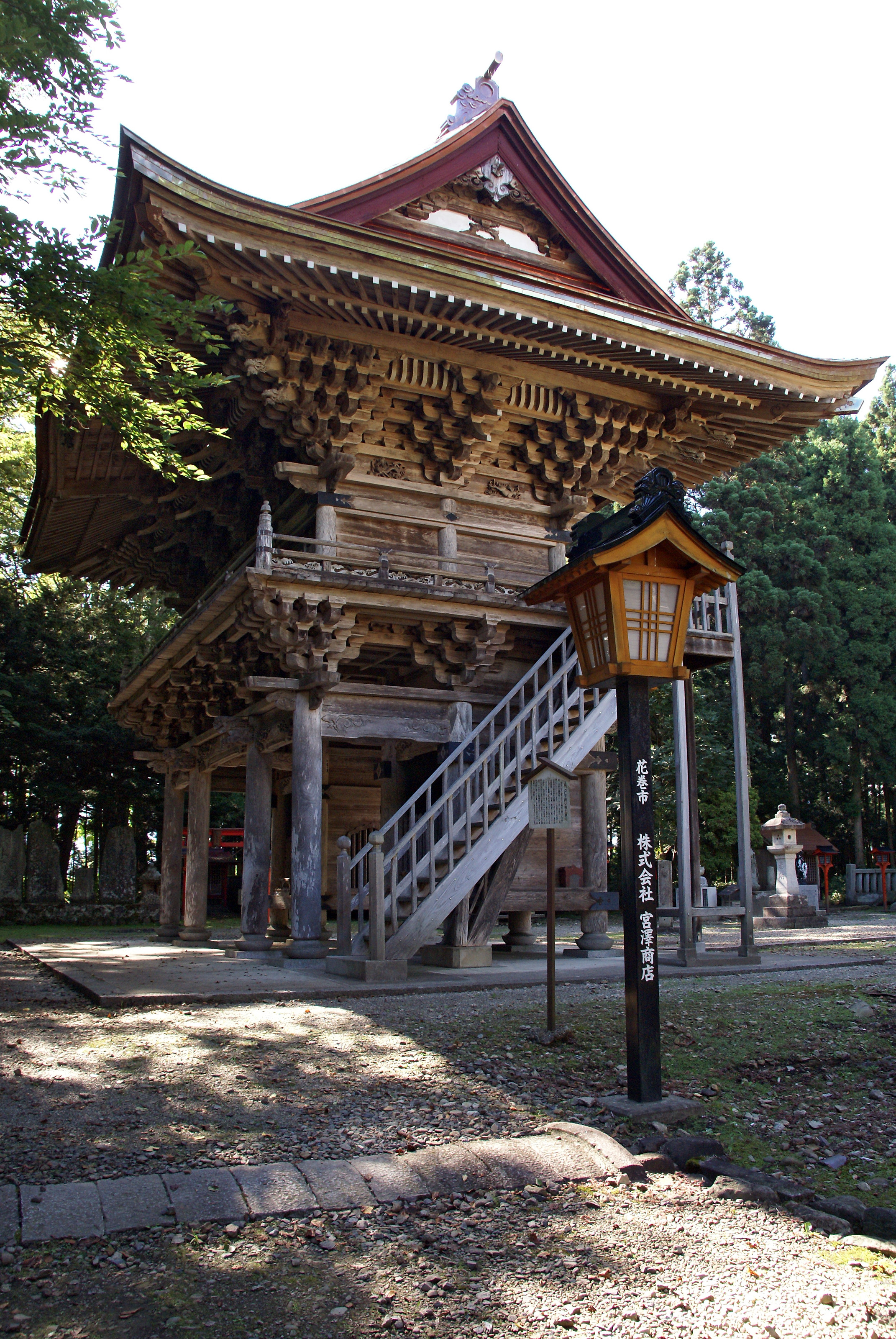 Kiyomizudera in Hanamaki, Iwate prefecture, Japan